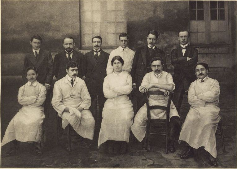 The medical staff of the Hospice de la Salpêtrière: the second row: Crouzon, Desplas, Levy, Zivy, Borel, Charrier; first row: Thịnh, Loewy, Benisti, Monod, Alajouanine